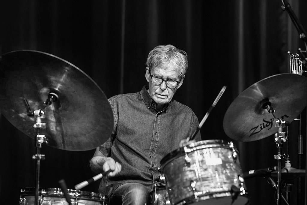 Jon Christensen (drm) performing with Jakob Bro (g), Palle Mikkelborg (trp), Thomas Morgan (b), at Aarhus Jazz Festival 2018